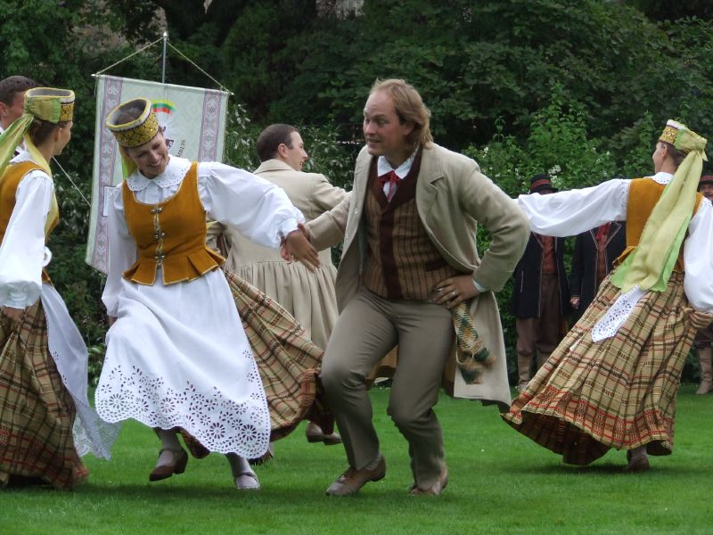 Traditional Lithuanian dance troupe Rasa performing during the 19th International Folk Dance Festival